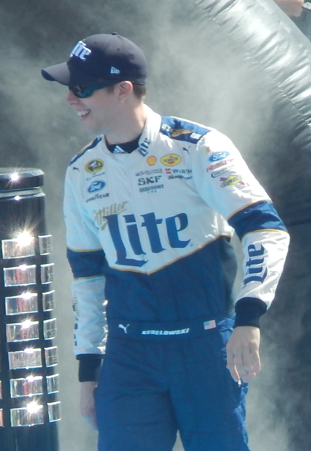 Brad Keselowski being introduced at Daytona International Speedway.